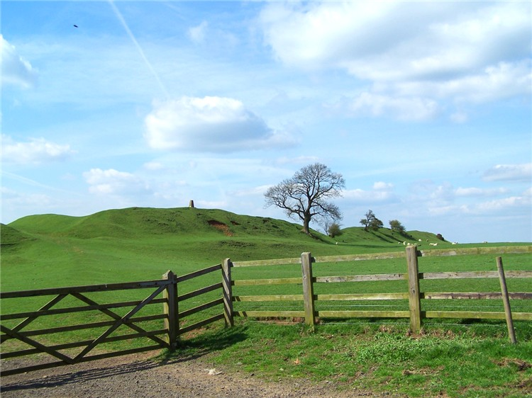 Atlas of Hillforts 1000 Burrough Hill Iron Age hillfort taken by kev747. The entrance to the hillfort is on the far left of the picture; the gap in the ramparts further right was made later.